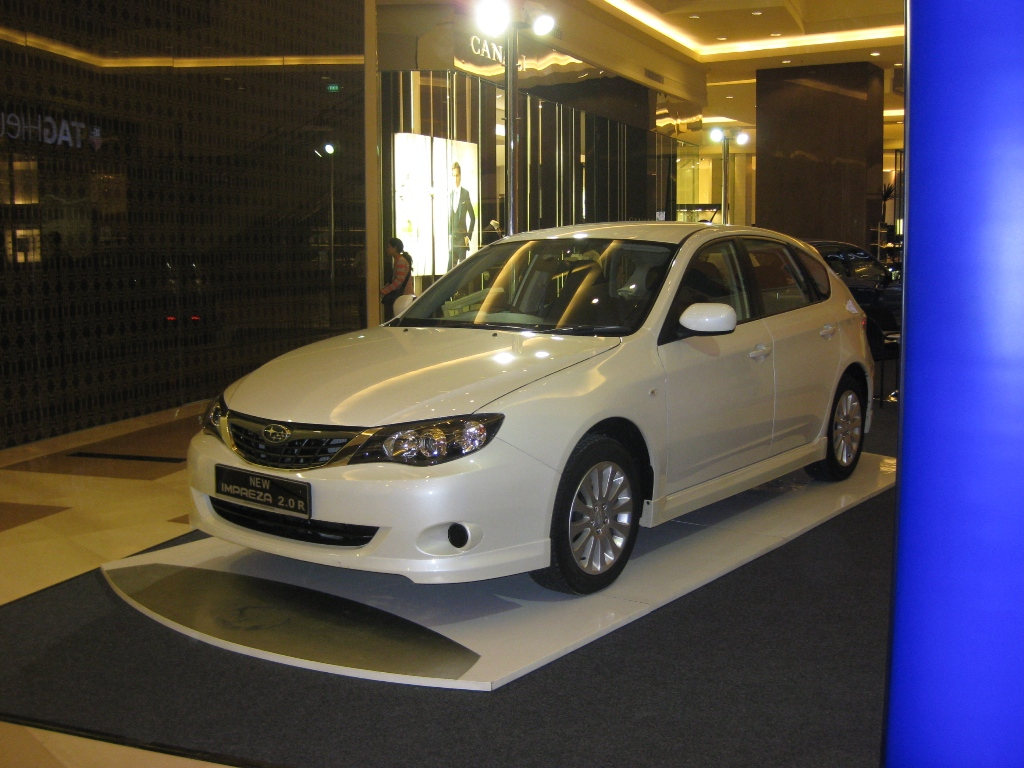 Subaru Impreza 2.0 R Sport Hatchback shown in Satin White Pearl. Photo was taken by Celica21gtfour in Jakarta, Indonesia.